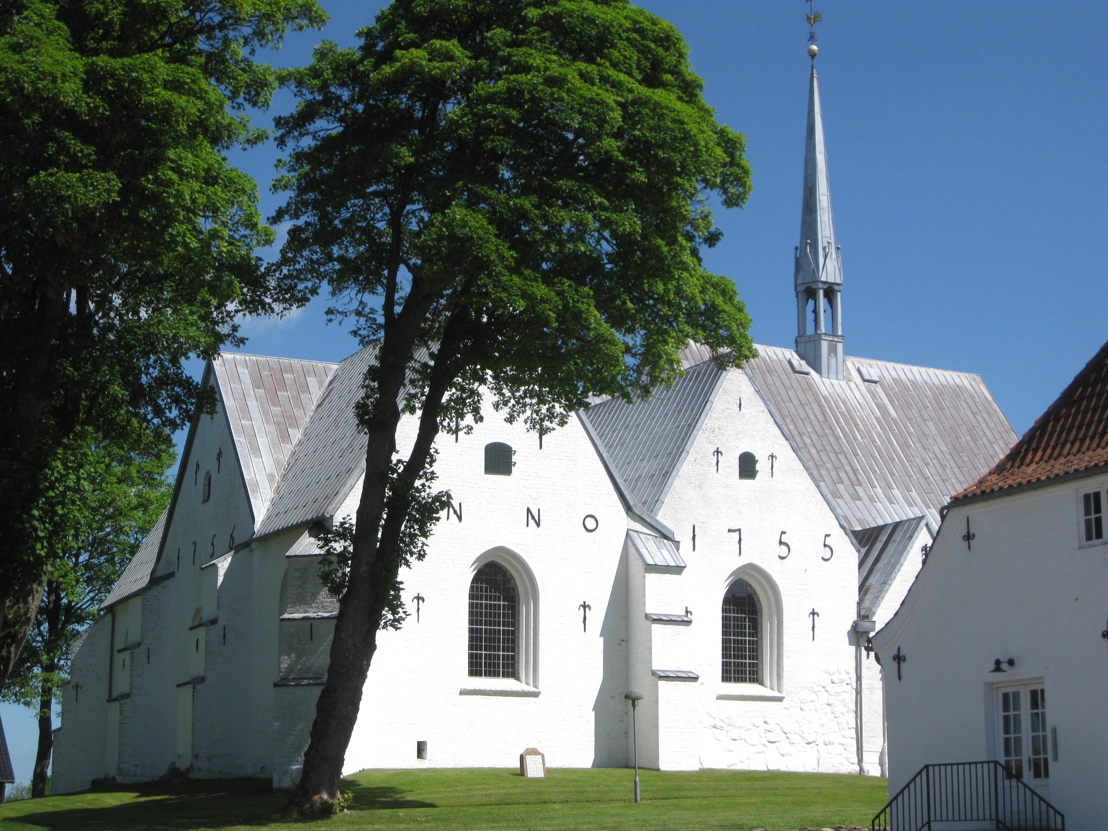 The church "Kliplev Kirke" in the small town "Kliplev". The town is located in Southern Jutland, Denmark.